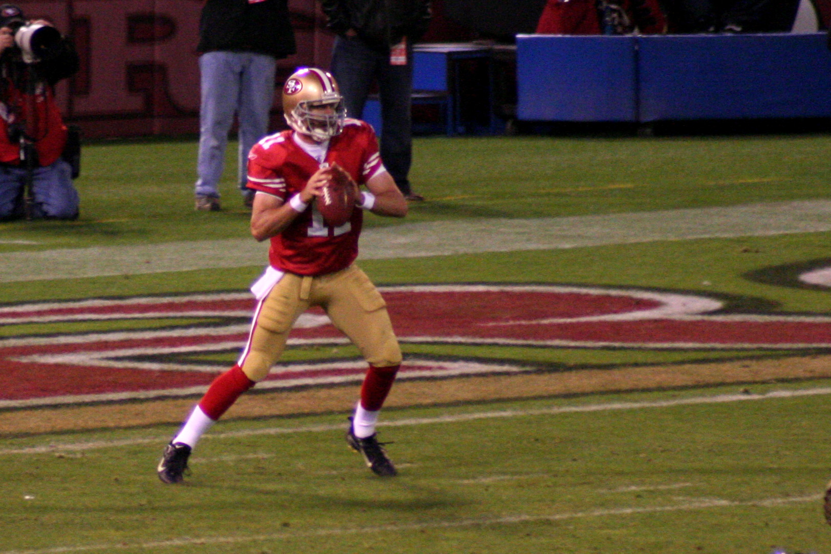 Alex Smith of the San Francisco 49ers dropping back for a pass against the Chicago Bears.